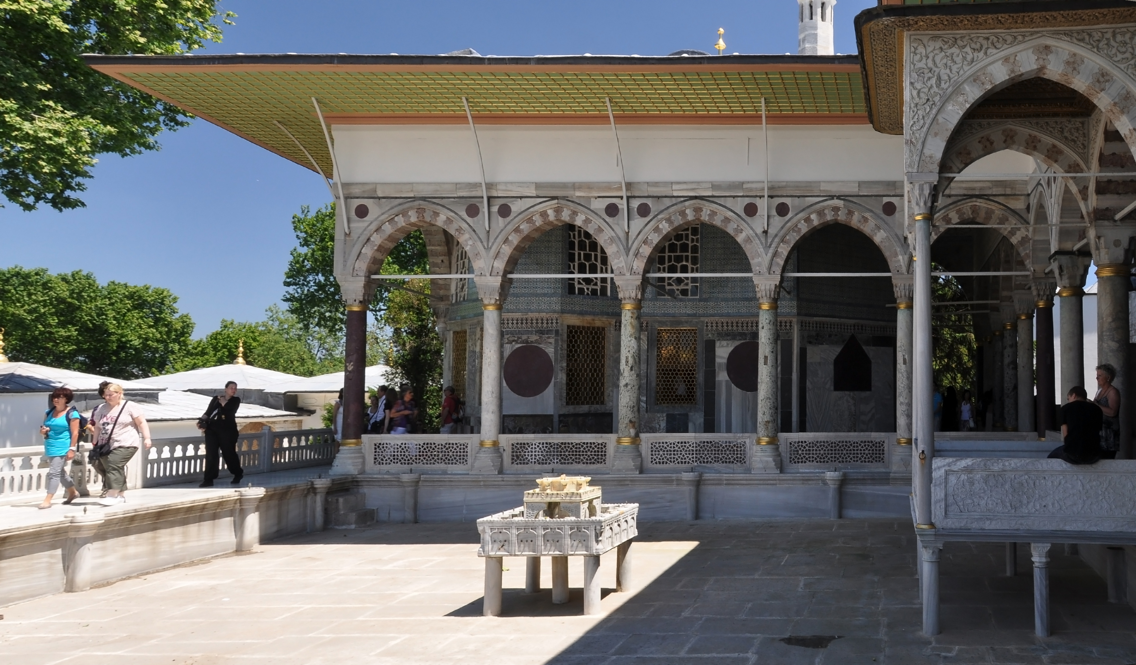 Yerevan Kiosk (Revan Köşkü) in the Fourth Courtyard of the Topkapı Palace in Istanbul, Turkey.